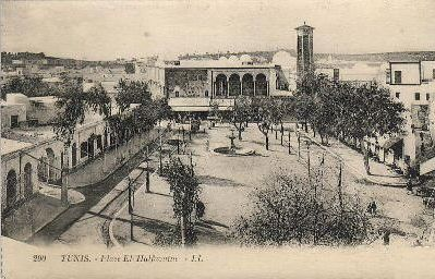 Place El Halfaouine in early 1900s, Tunis, Tunisia